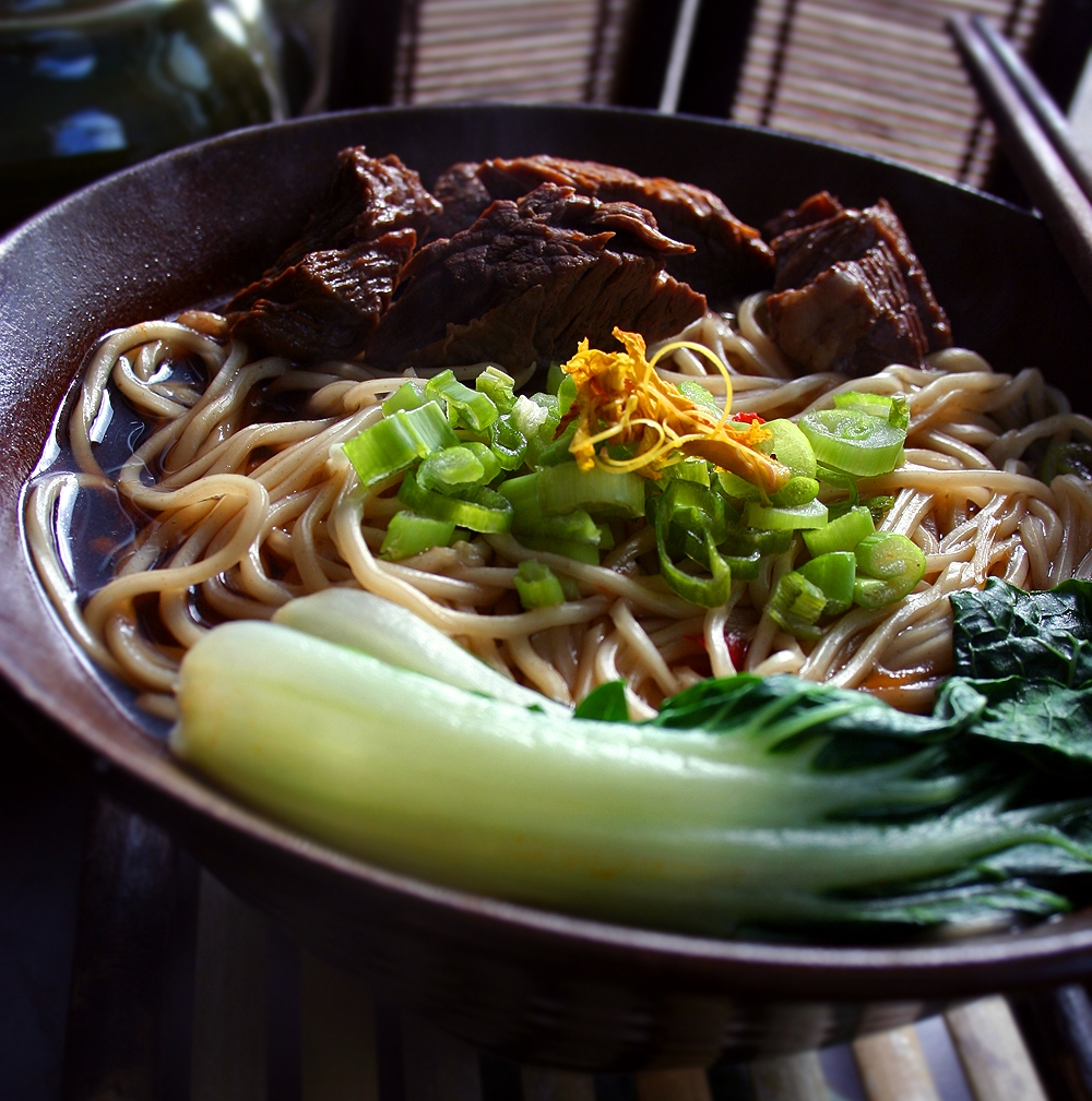 Pho-style noodle soup